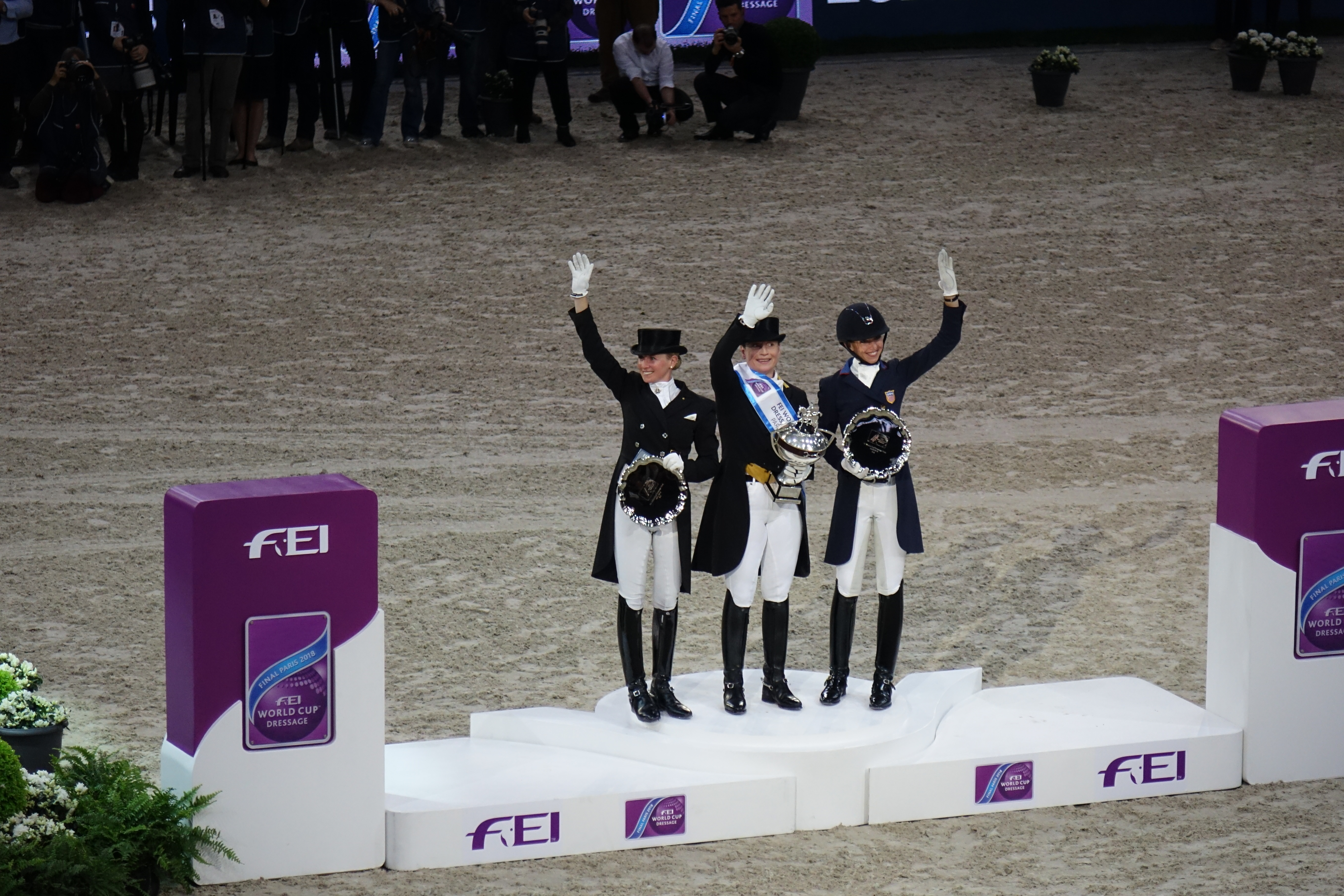 FEI WORLD CUP DRESSAGE FINALS PARIS 2018 1st : Isabell Werth; 2nd : Laura Graves; 3rd : Jessica von Bredow-Werndl